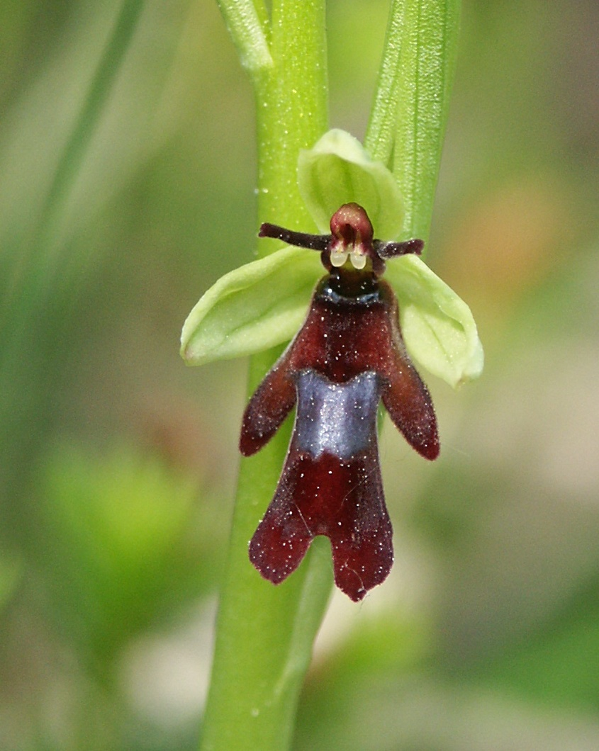 Ophrys insectifera, Ausserfern, Austria